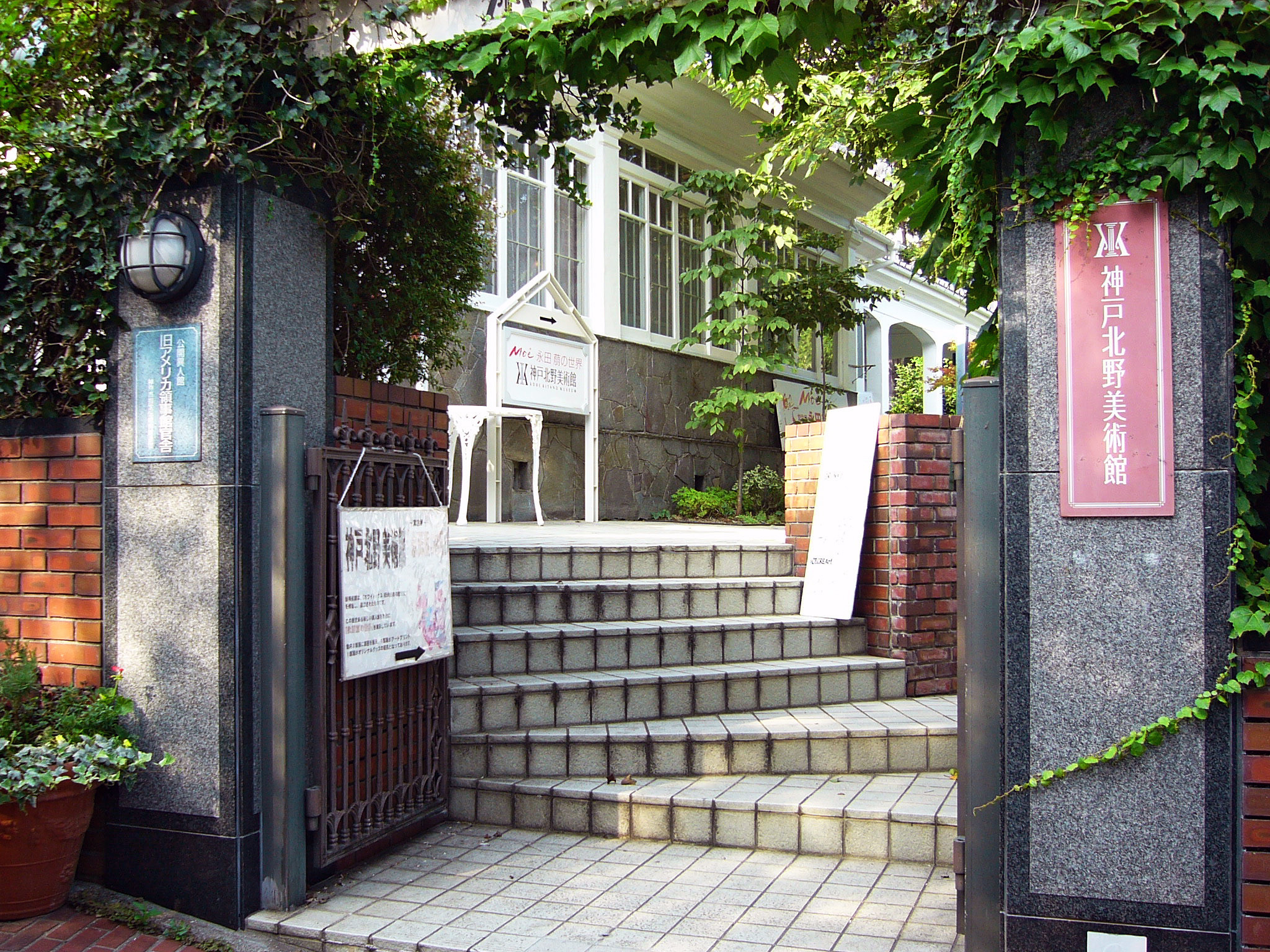 Kobe Kitano Museum (Old American Consulate) in Kobe, Japan